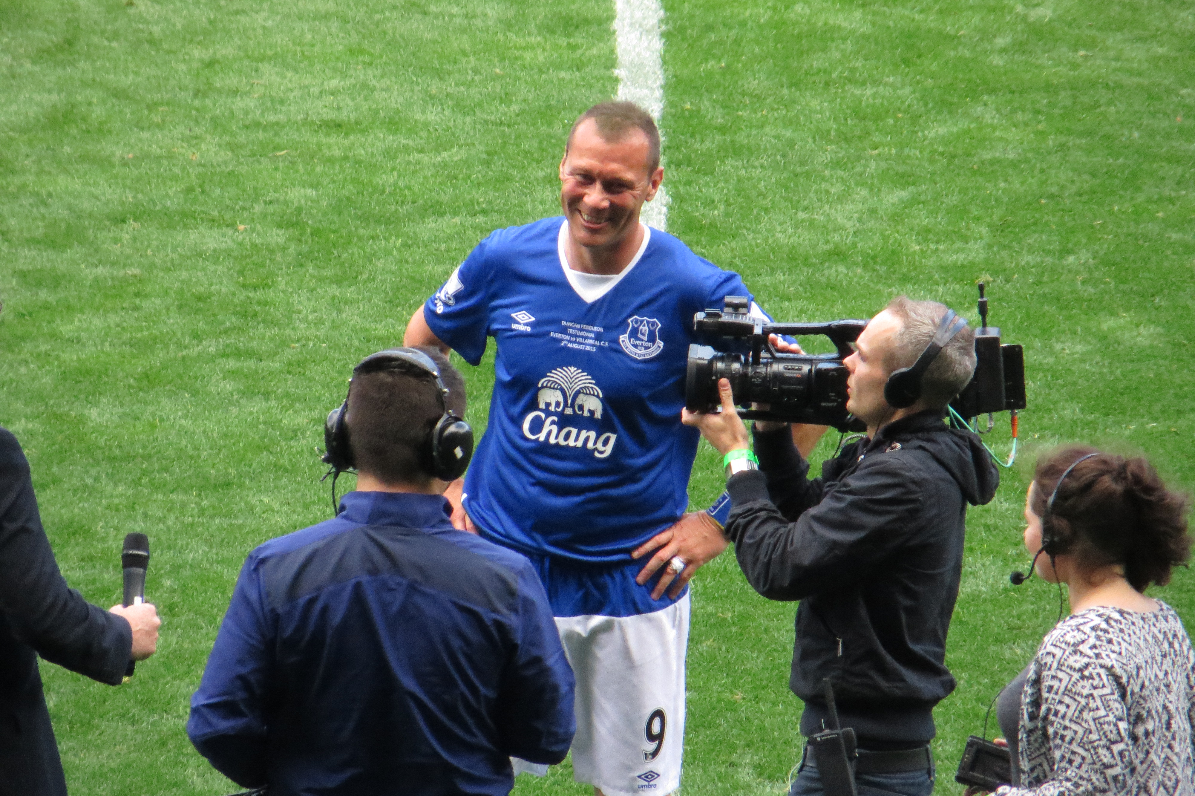 Duncan Ferguson on his testimonial match in August 2015.